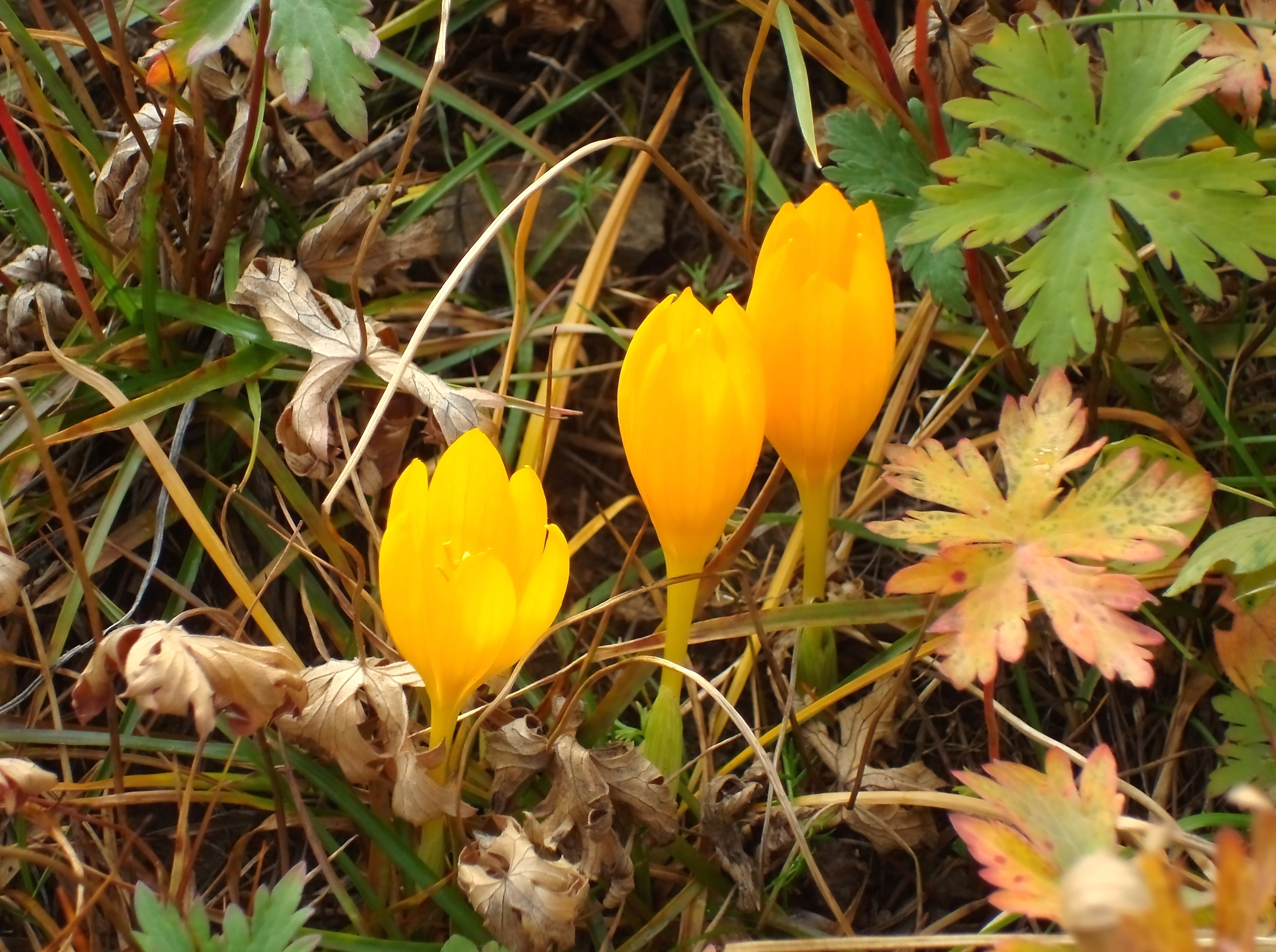 Crocus scharojanii. Subalpine-Alpine Zone on Mount Achishkho slopes in vicinities of Krasnaya Polyana, Sochi. This image is related to the protected area of Russia number 2300430